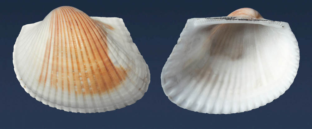 A shell that a family member brought with him after a trip to California.